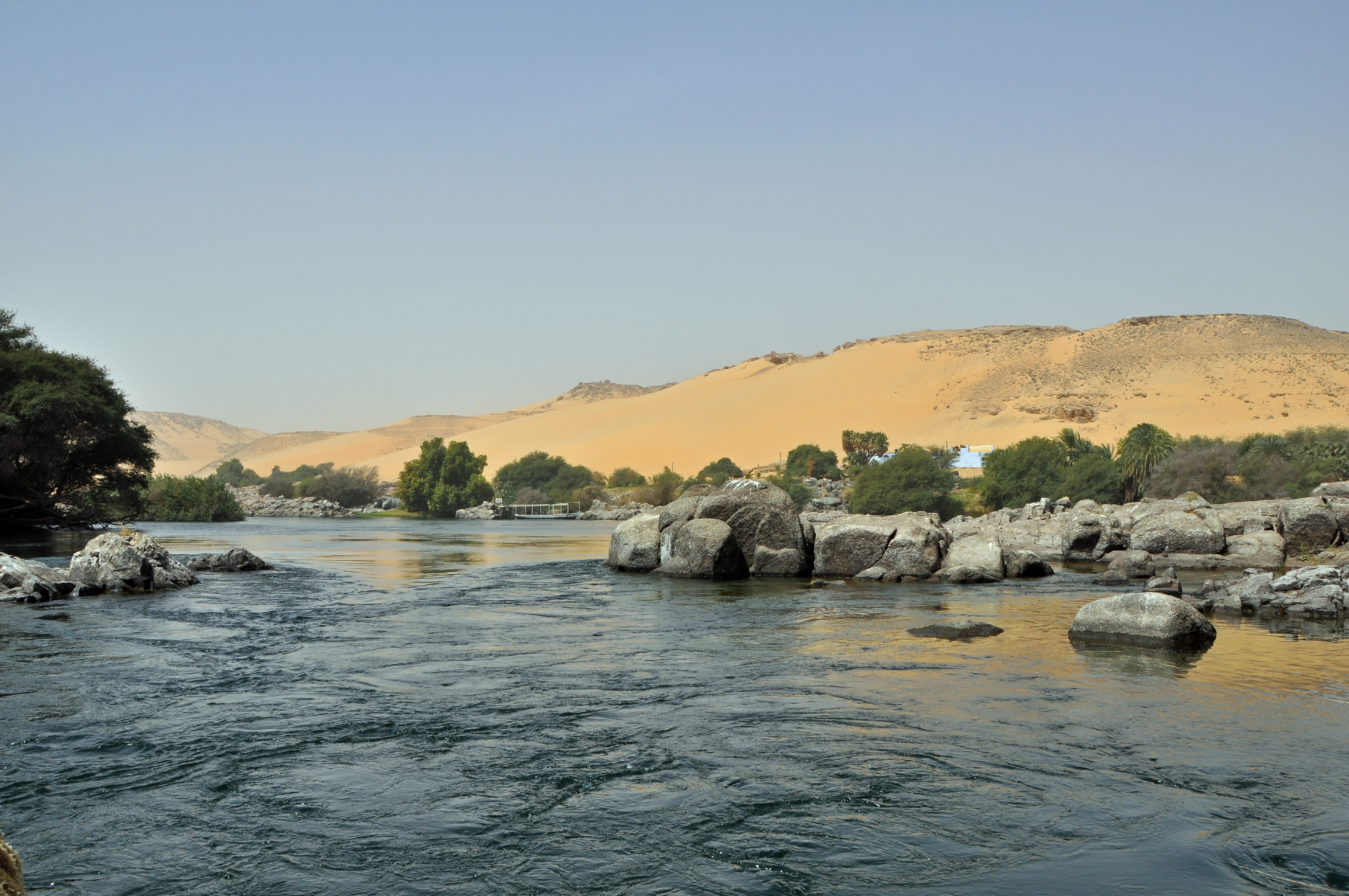 The First Cataract of the Nile, south of the town of Aswan (Egypt)